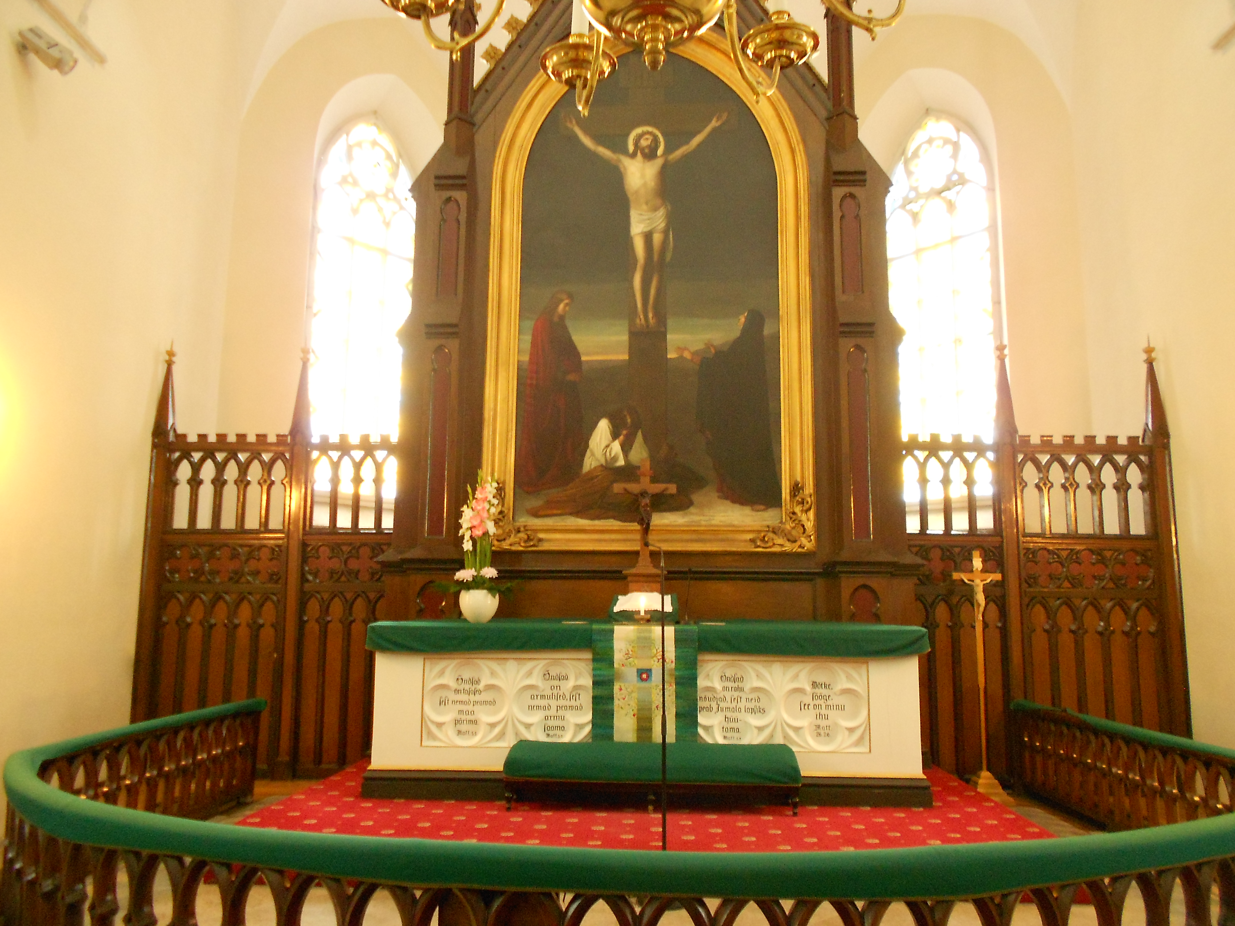 The high altar of St John's Church, Tallinn, Estonia, decorated in green furnishings for the ferial season of the ecclesiastical year.